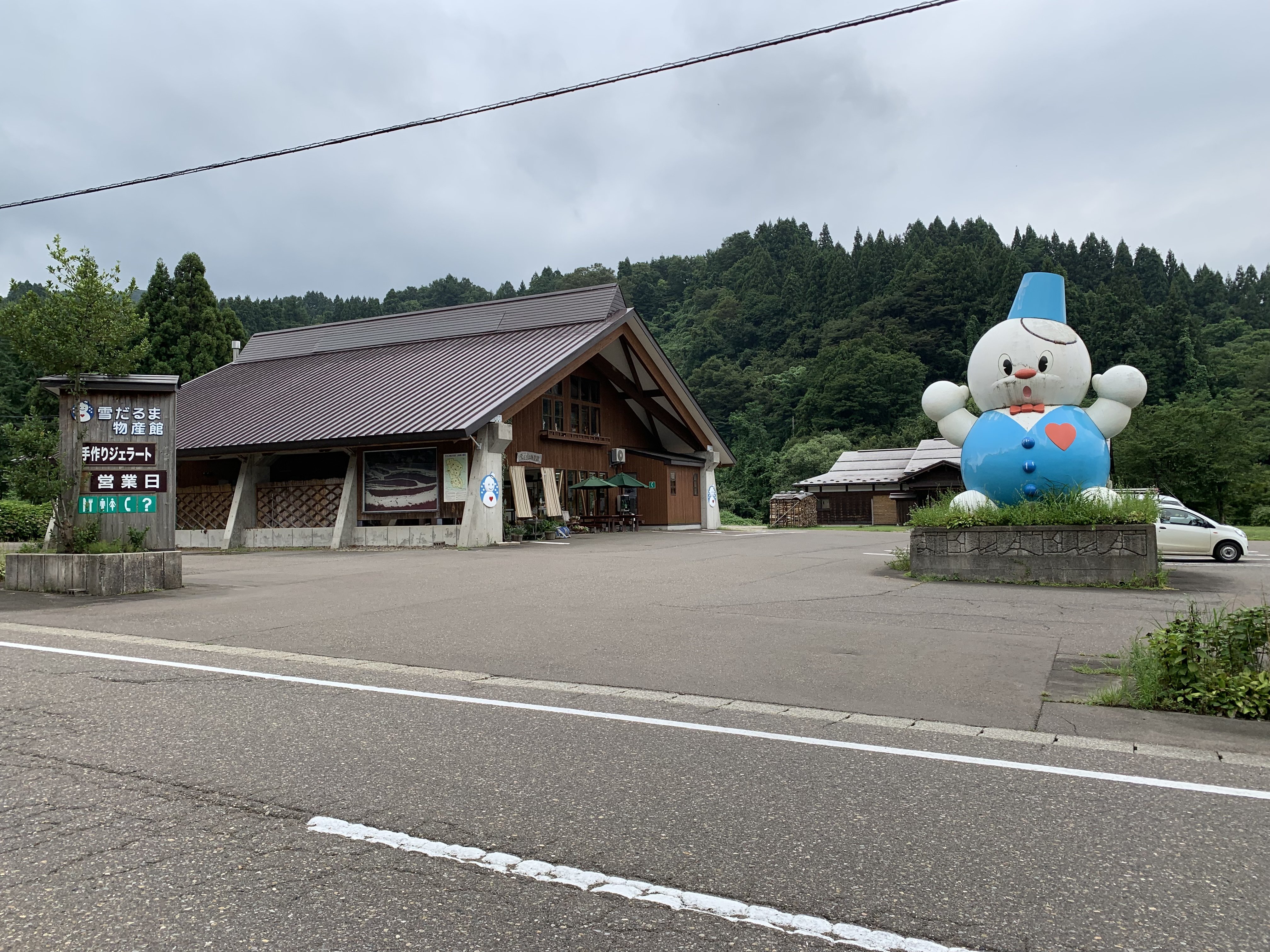 Yuki no Furusato Yasuzuka, Roadside Station, Niigata, Japan. Took photo in August 2019.